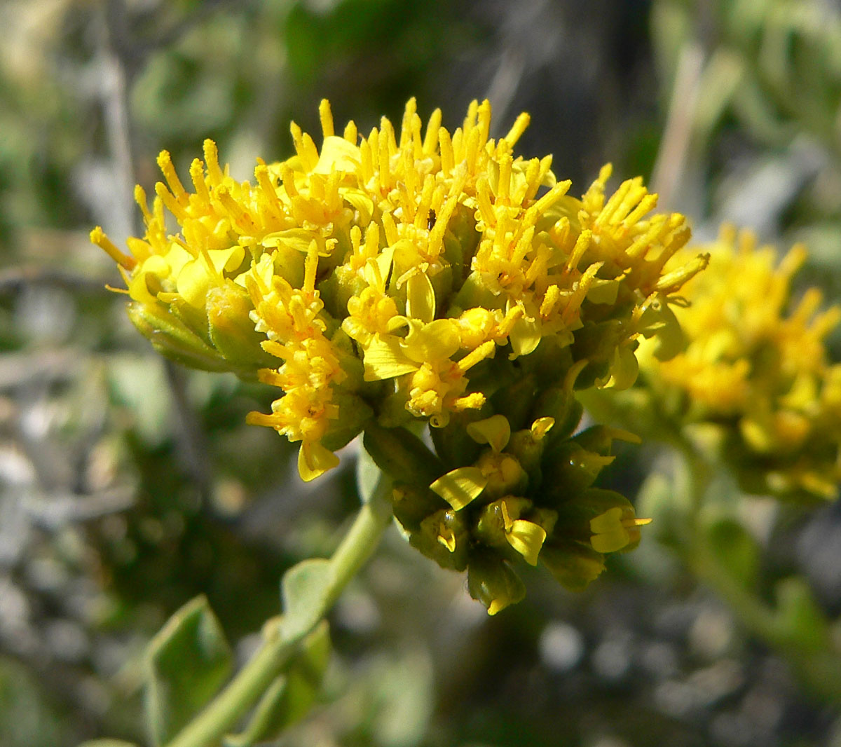 Amphipappus fremontii var. spinosus just off Apex Road, near Apex exit of Interstate 15 northeast of Las Vegas, southern Nevada